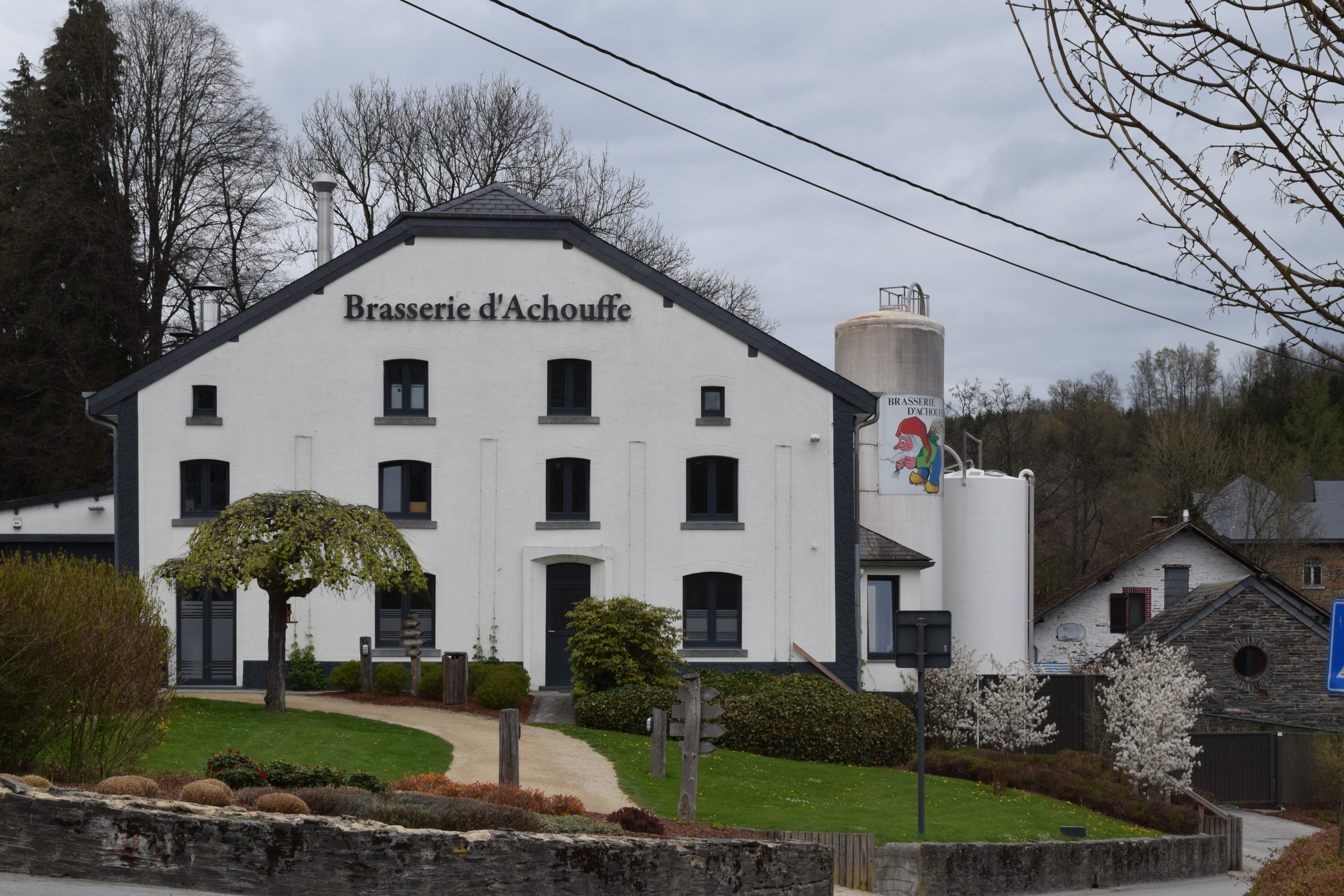 Achouffe brewery